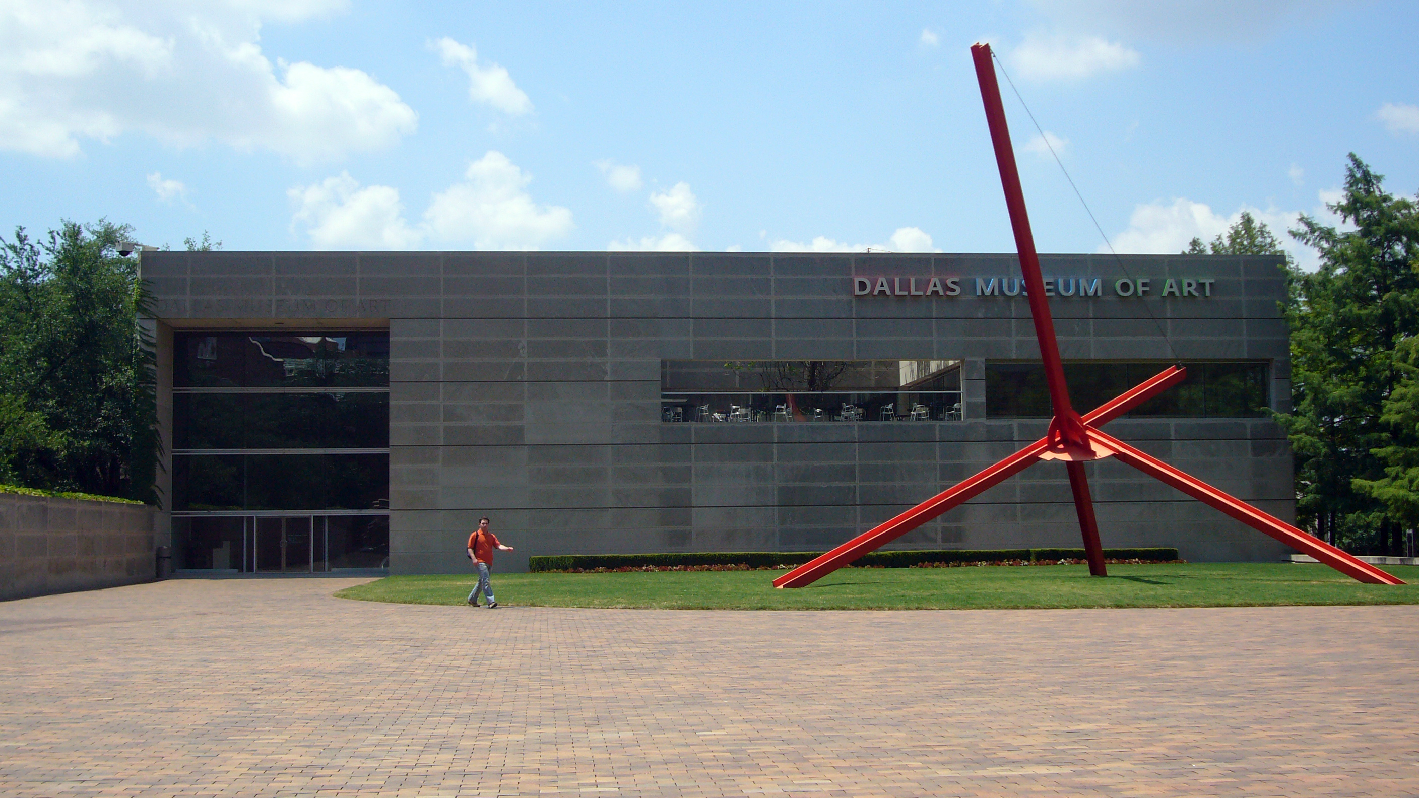 Dallas Museum of Art, Dallas, Texas, USA. Architect Edward Larrabee Barnes.